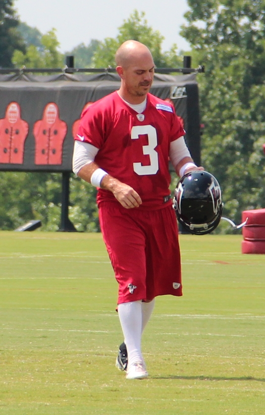 Matt Bryant at Falcons training camp, 2013